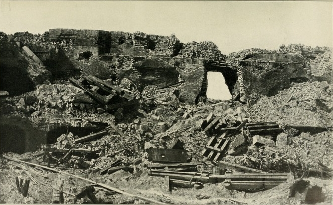 Breech compromised at Fort Sumter's wall facing Morris Island during bombardment of Fort Sumter.